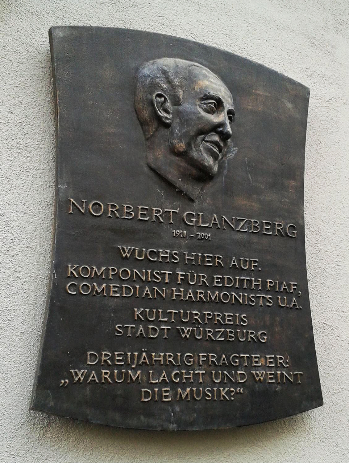 Würzburg plaque, Norbert Glanzberg, Wolfhartsgasse 6, Würzburg, Germany. Norbert Glanzberg is a Polish-born French composer. Mostly a composer of film music and songs, he is notable for some famous songs of Édith Piaf.